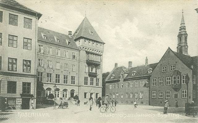 Bispetorv in Copenhagen, Denmark in about 1902